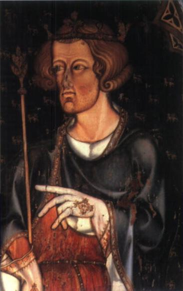 Erected at Westminster Abbey sometime during reign of Edward I, thought to be an image of the King.